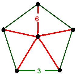 Truncated_600-cell vertex figure